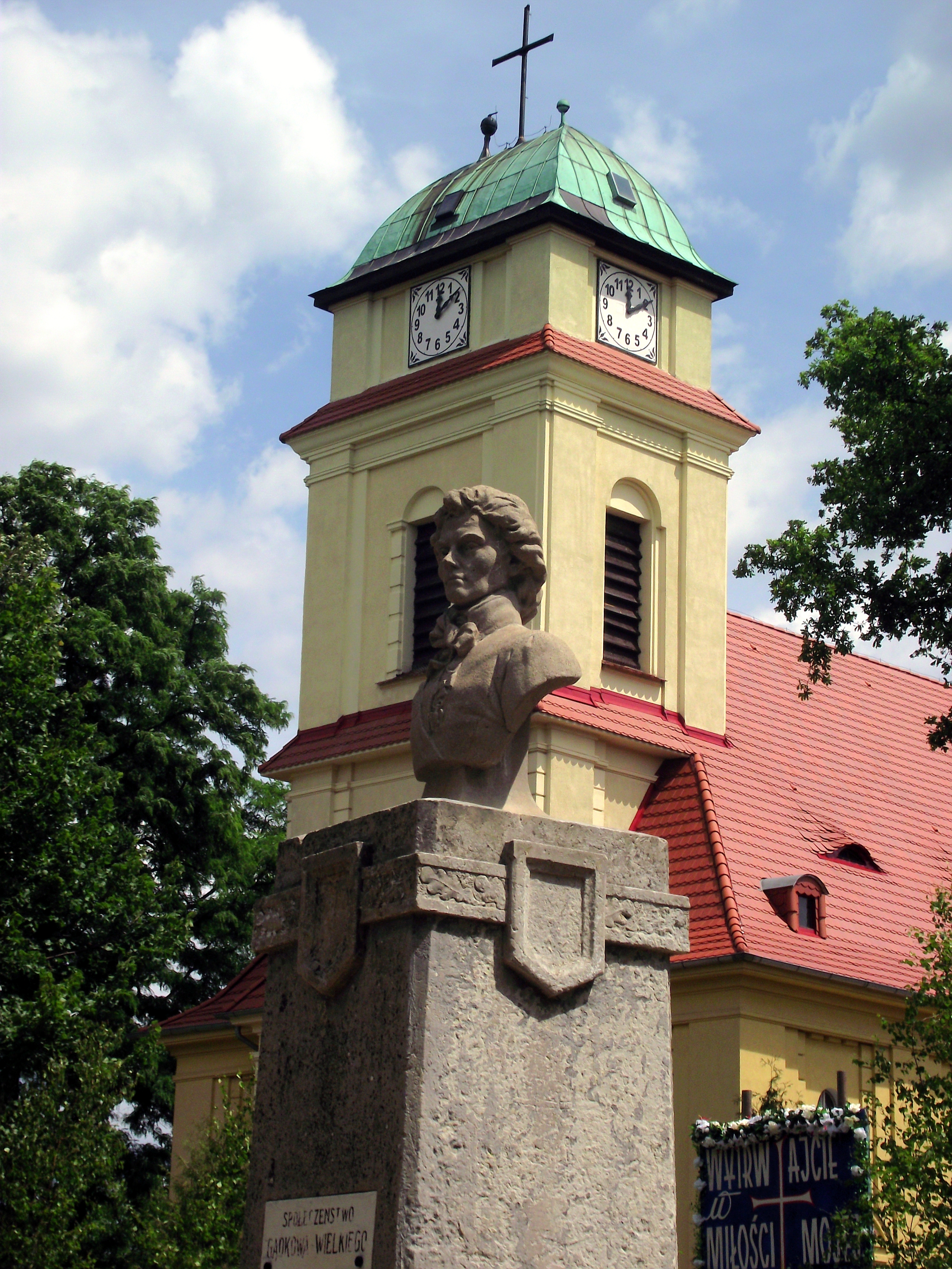 Church and Tadeusz Kościuszko statue in Gądków Wielki